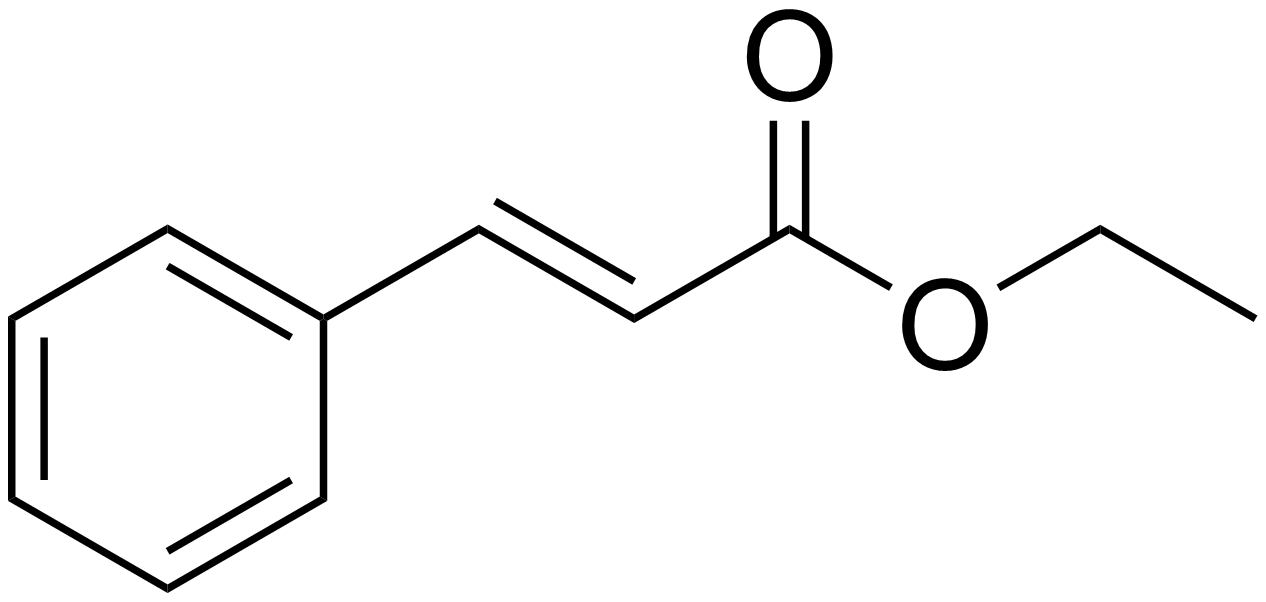 chemical structure of ethyl cinnamate